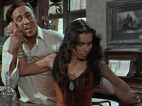 Timothy Carey & Margarita Cordova in One-Eyed Jacks - cropped screenshot